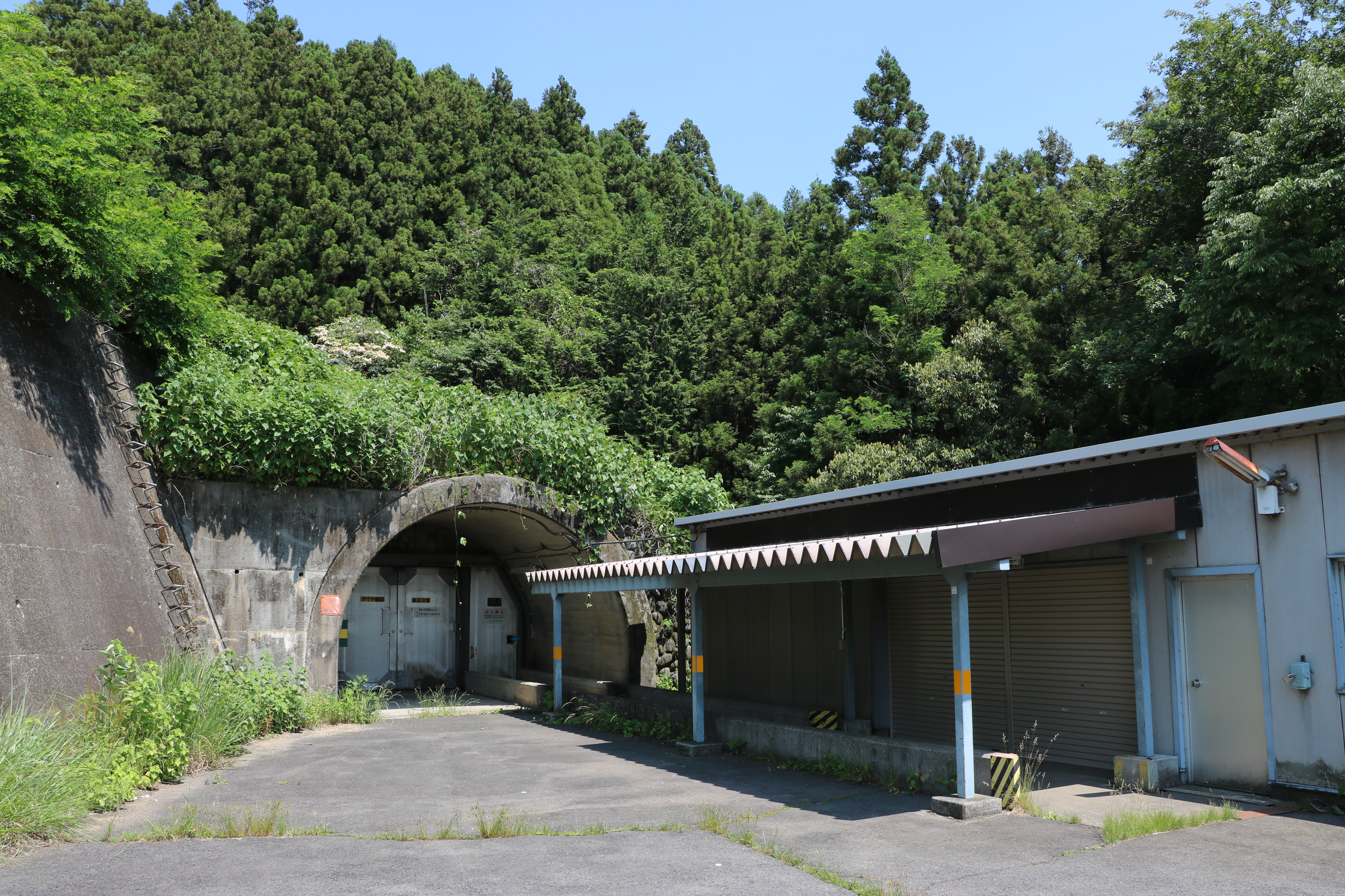 Nakayama tunnel Onogami-Minami adit entrance of Joetsu Shinkansen.